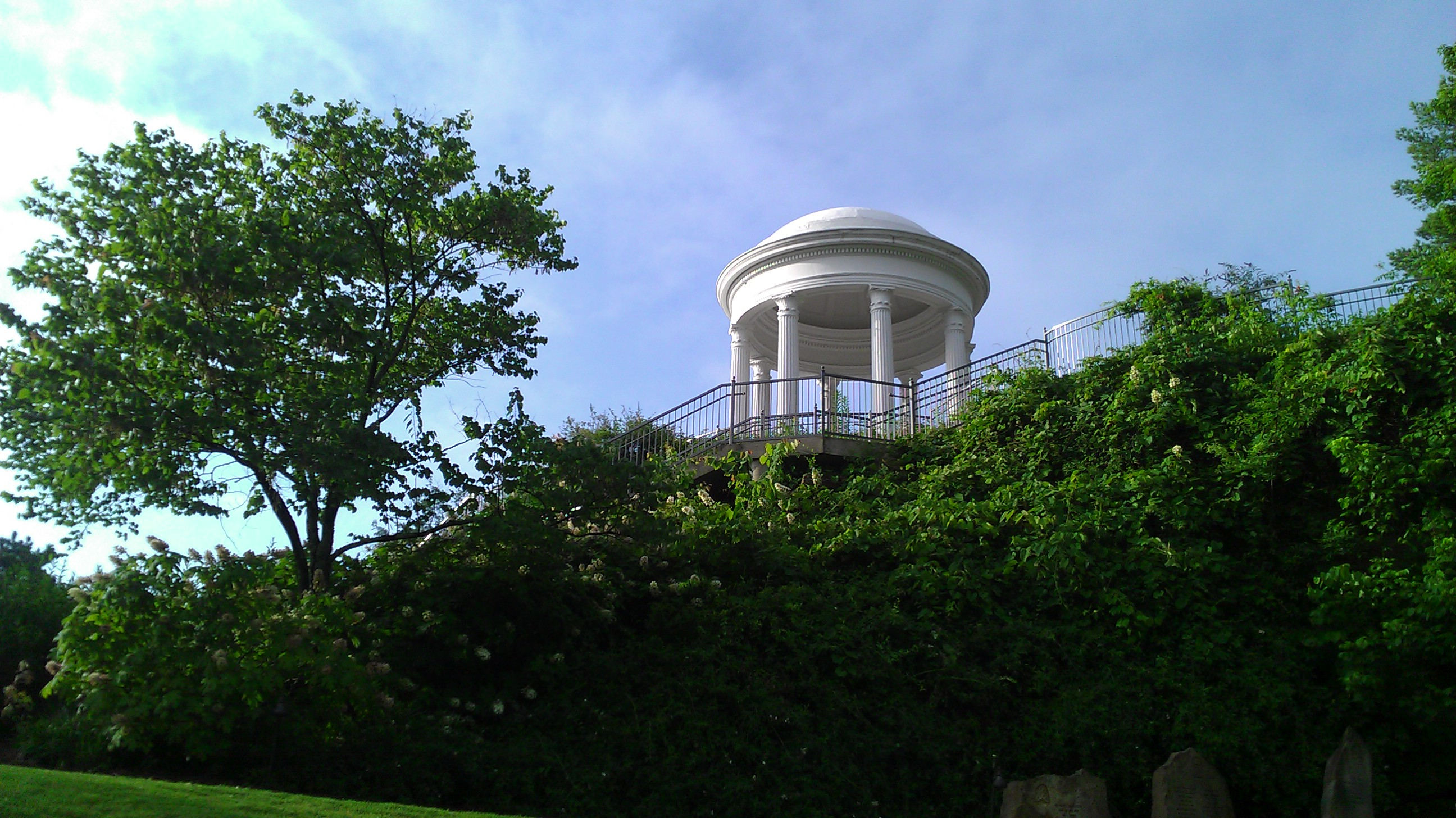 The Sibyl Temple at the entrance to Vestavia Hills Alabama on Highway 31